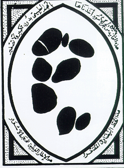 A hand drawing typical size for the 8 pieces of the black stone in Al-Kaaba, done by Shaikh Mohammed Taher Al-Kurdi, drawn in 1956.